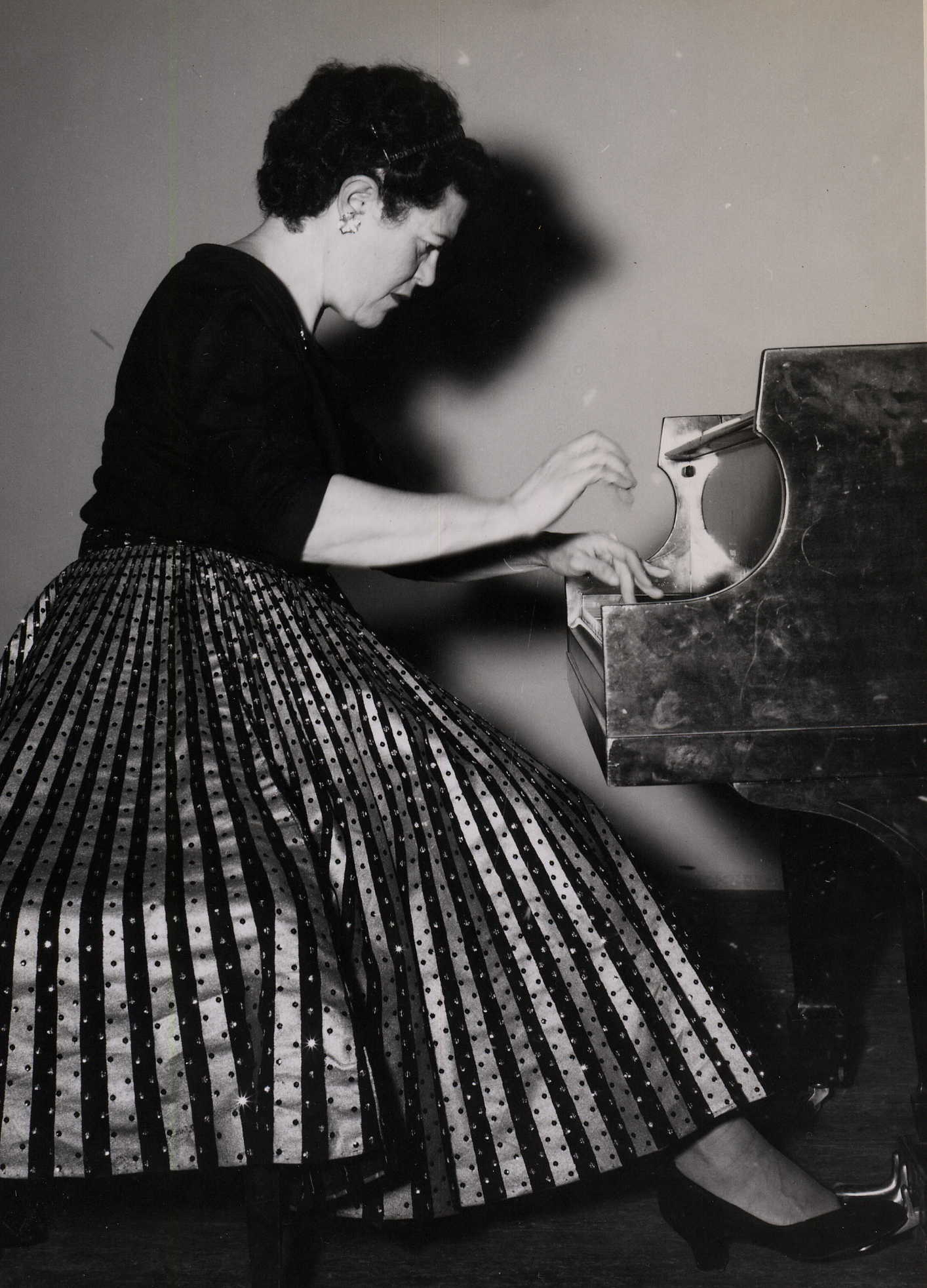 Picture of Consuelo Vllalon Aleman